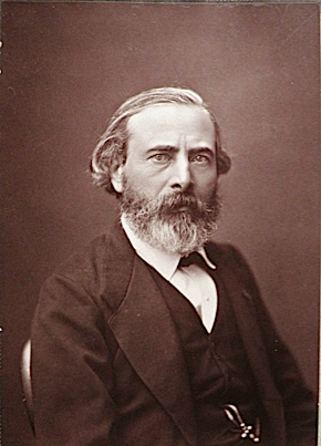 Pierre-Edouard Frère, woodburytype photo, from Galerie contemporaine, Paris, 1877. Dim. : 12 x 8,5 cm.